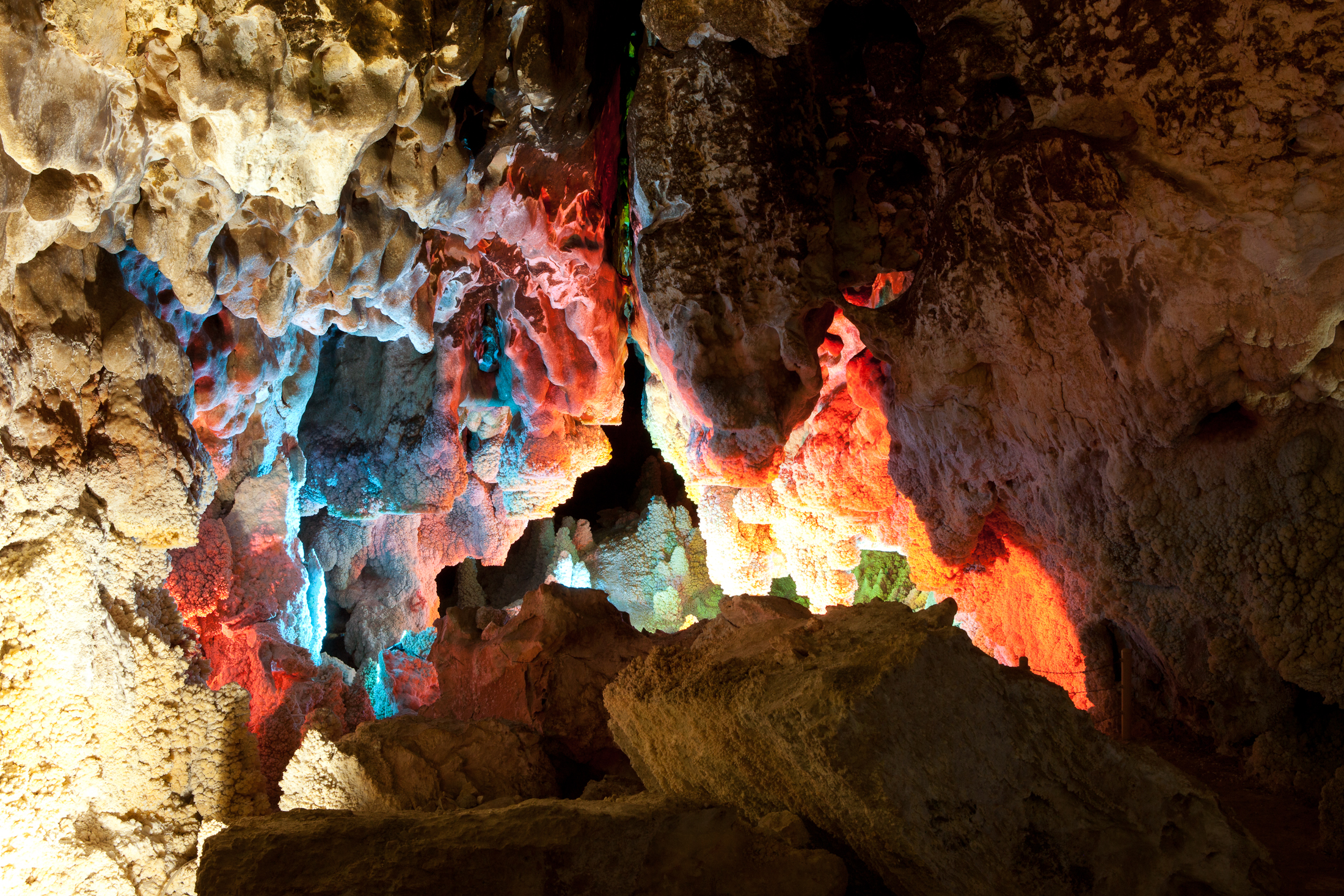 this cave palaced in delijan township, markazi province, iran